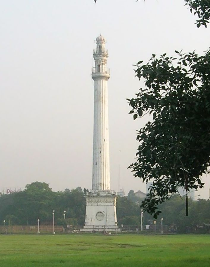 Shahid Minar, Kolkata.